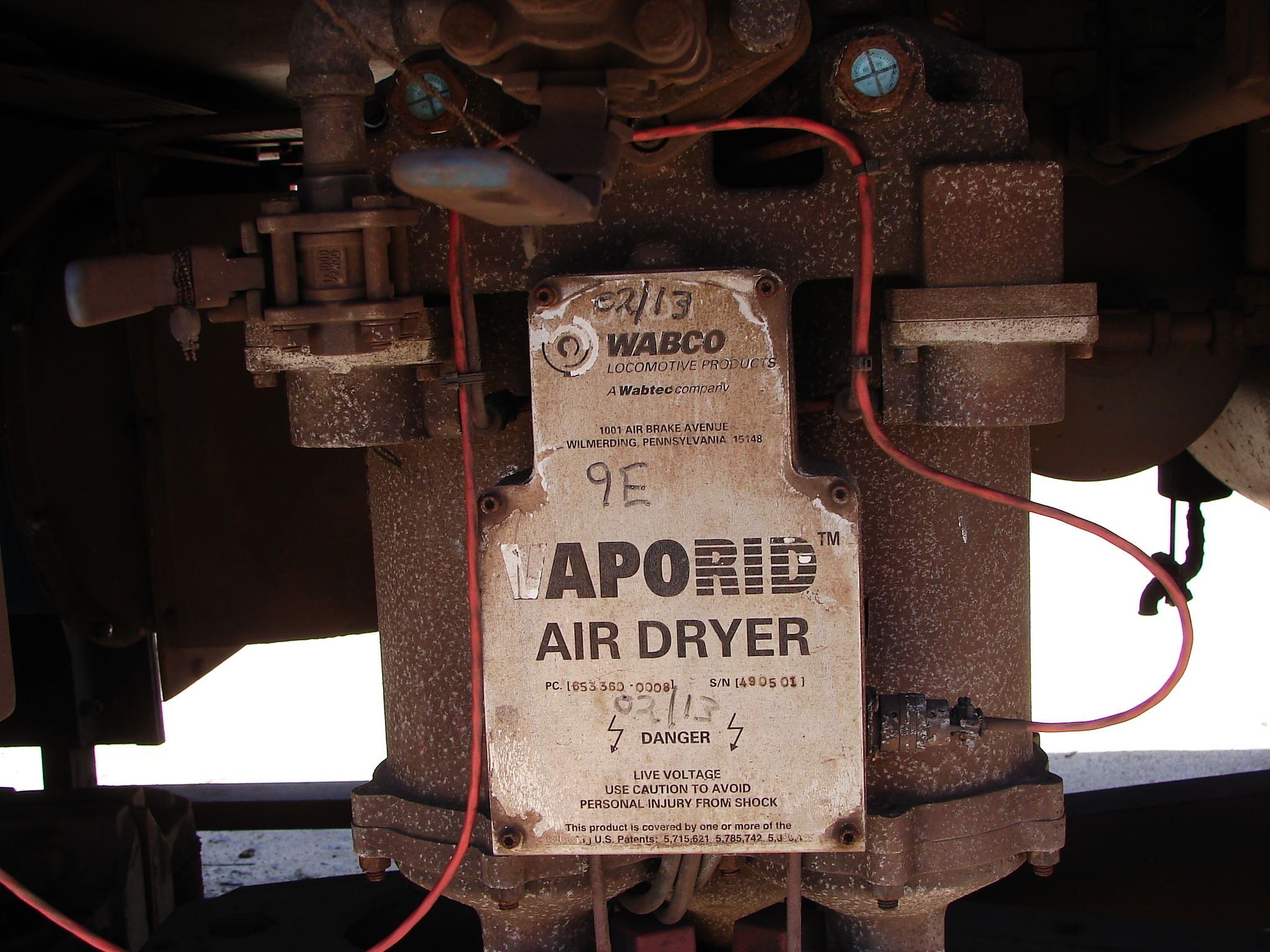 Wabco (Westinghouse Air Brake Company) air dryer on SAR Class 9E Series 1 E9024